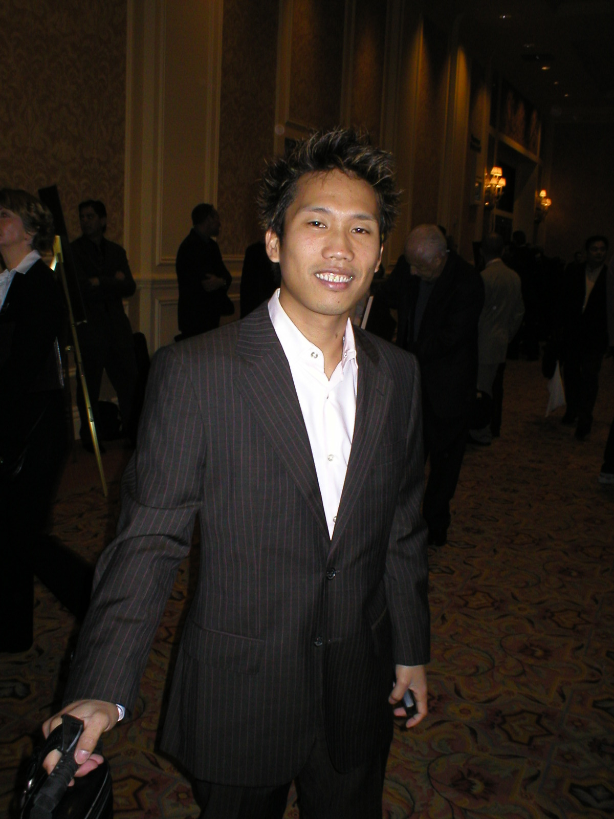 My personal picture, taken with my camera.